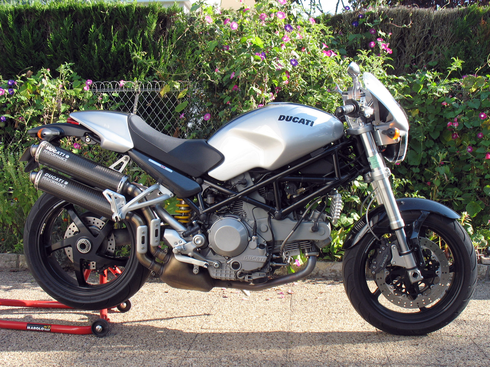 Moto Ducati Monster S2R 1000